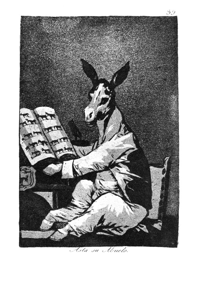 Los Caprichos is a set of 80 aquatint prints created by Francisco Goya for release in 1799.